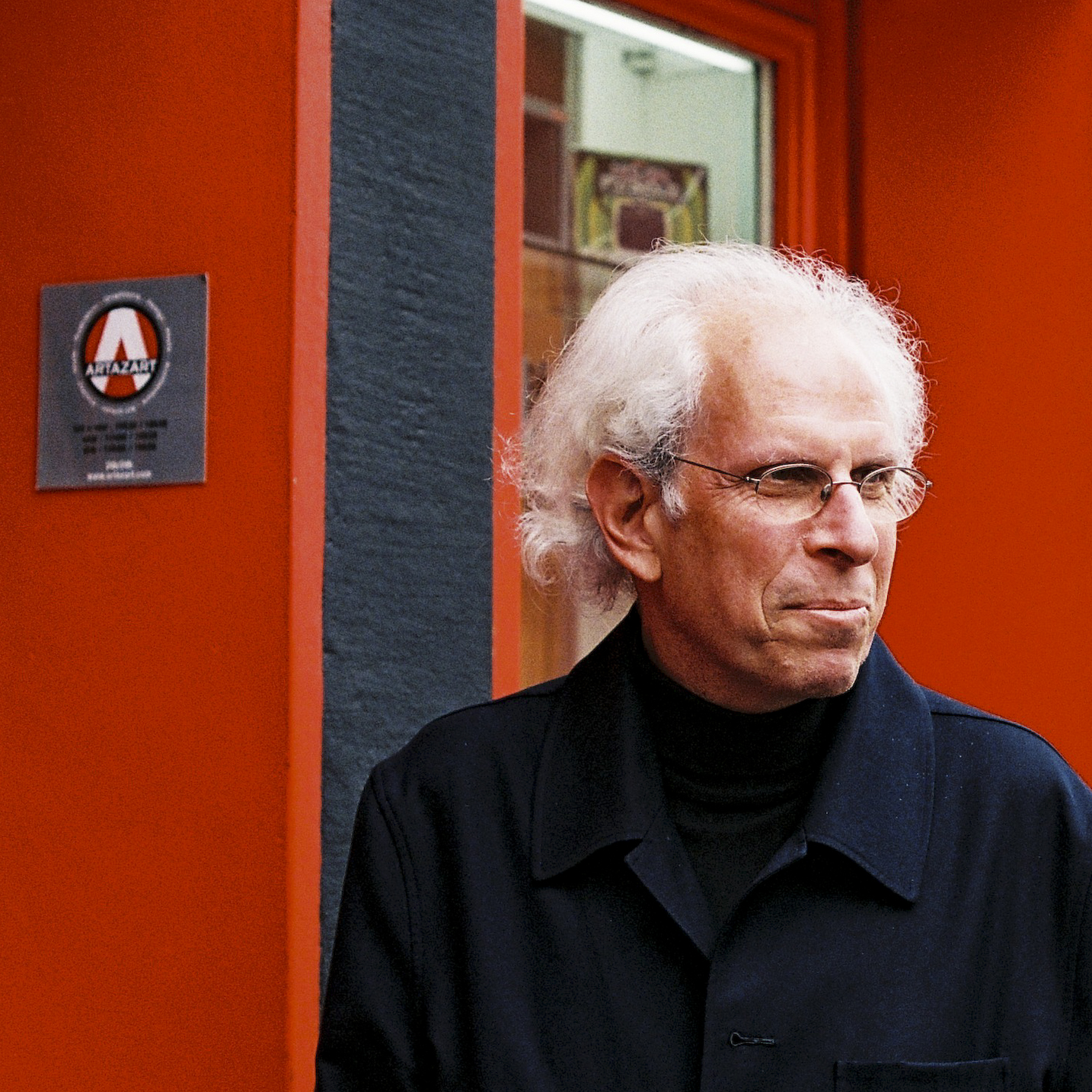 Picture of the photograph stephen shore